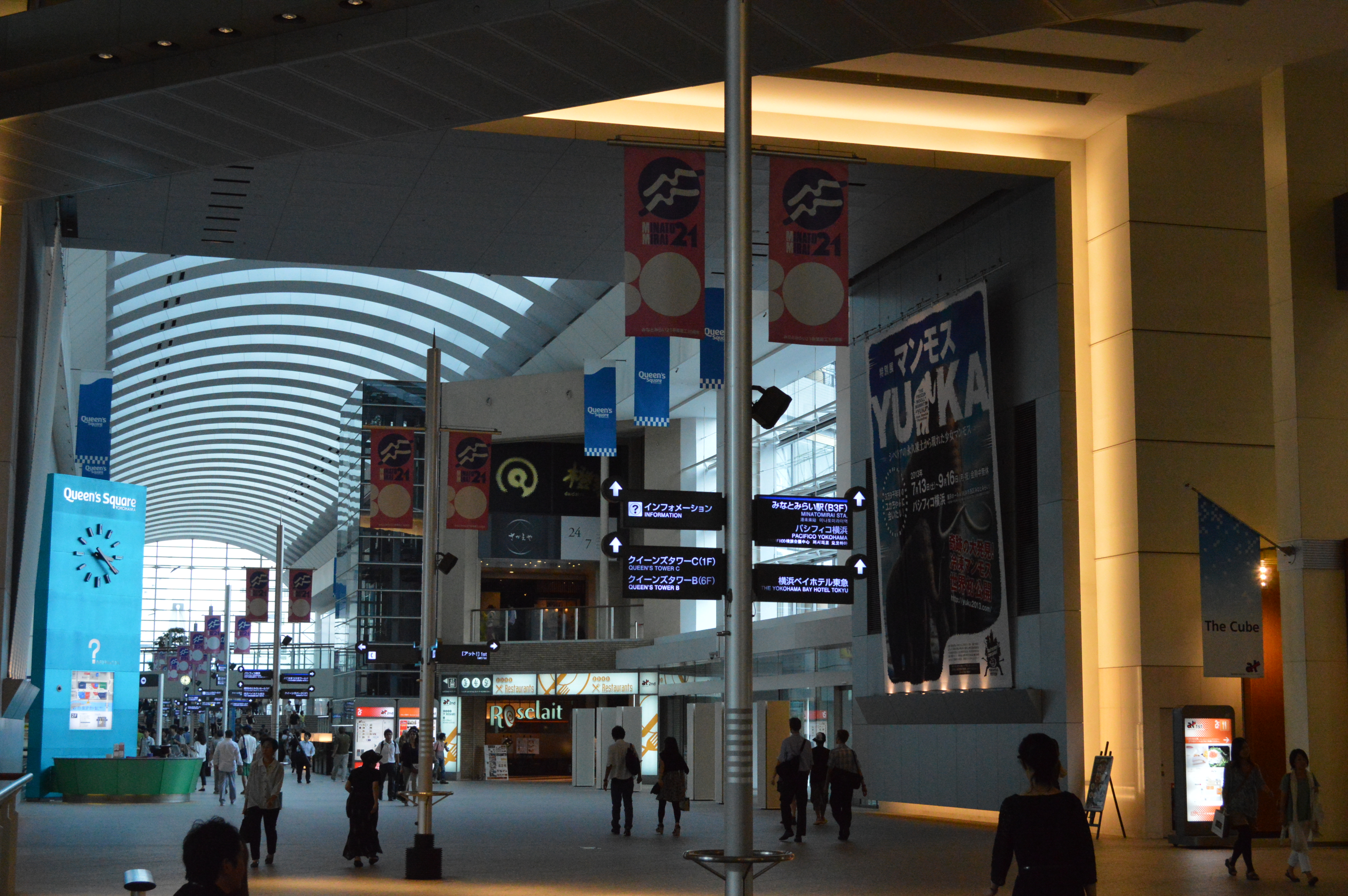 2nd floor of Queen's Square Yokohama. On the right wall is a poster of the Frozen Mammoth Yuka Exhibit. Proceed straight (or left in the photo) and you will exit onto the bridge that connects to Pacifico Yokohama.